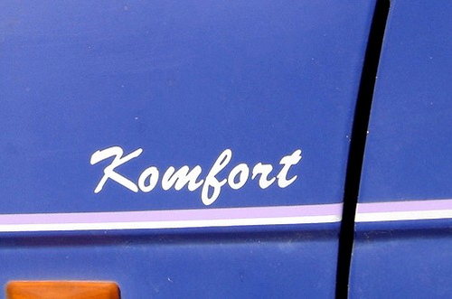 Škoda Favorit Komfort Logo